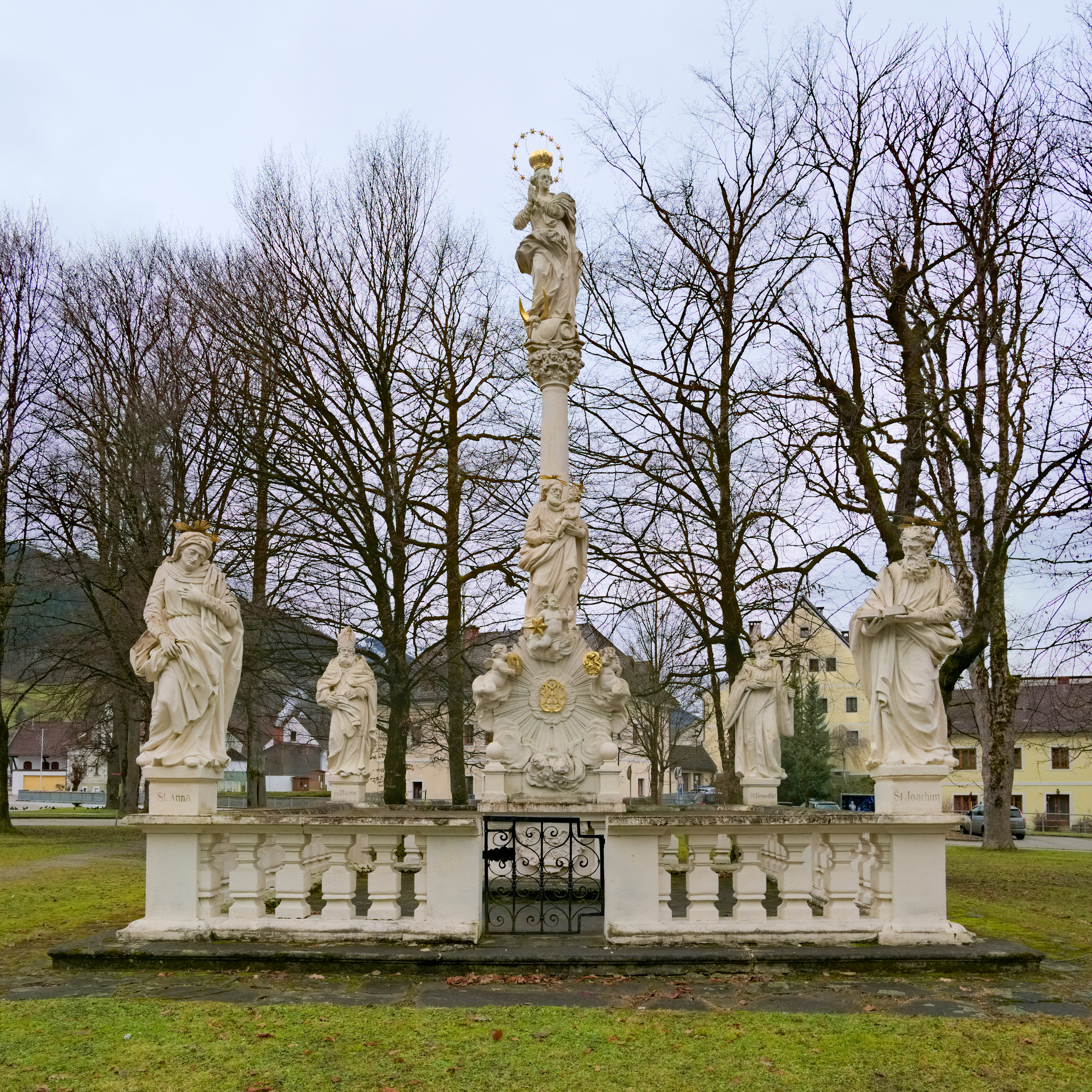 The Mariensäule (Maria Column) in Admont, Austria.